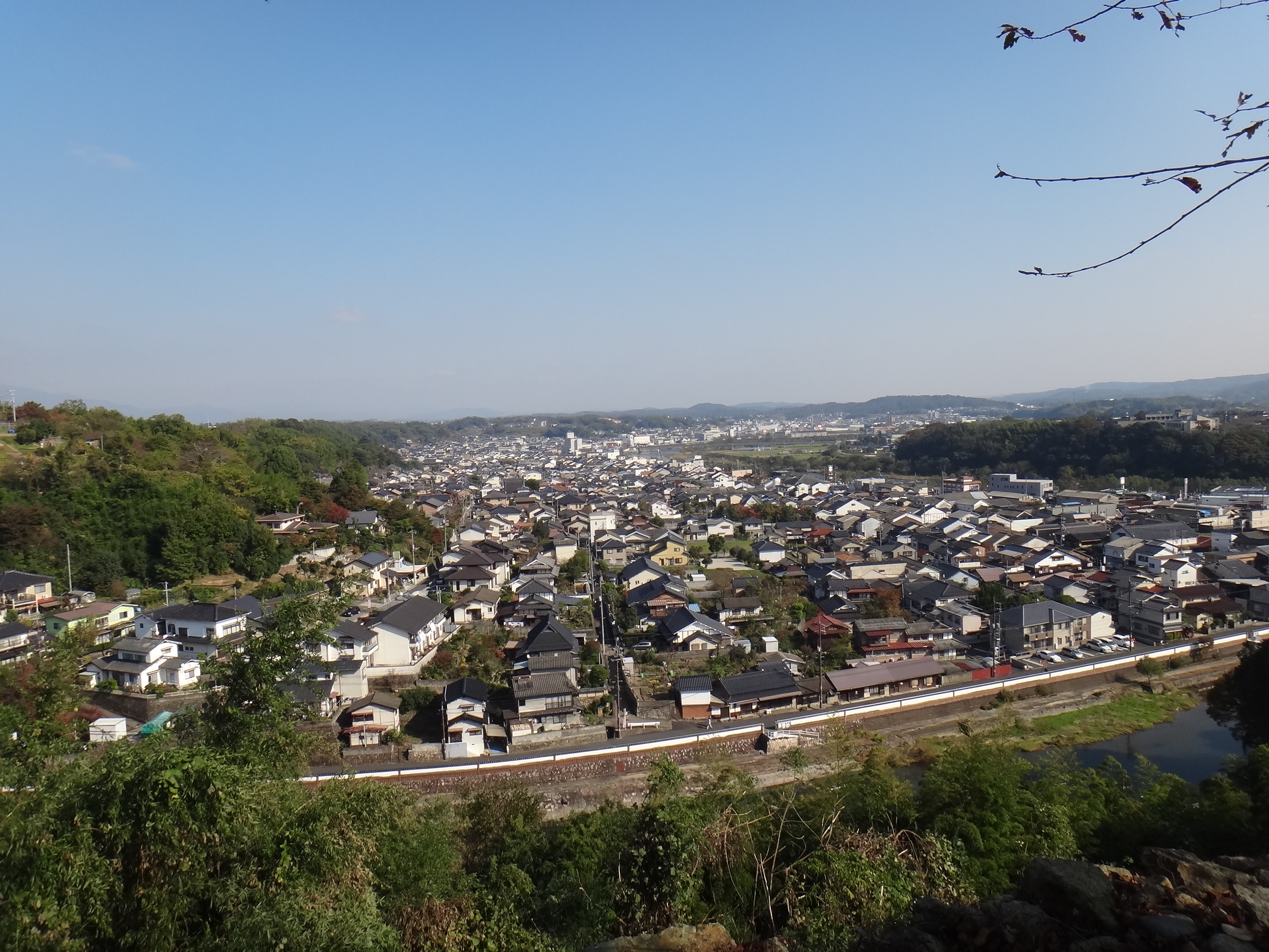 Okayama pref,Tuyama casle,Kakuzan park